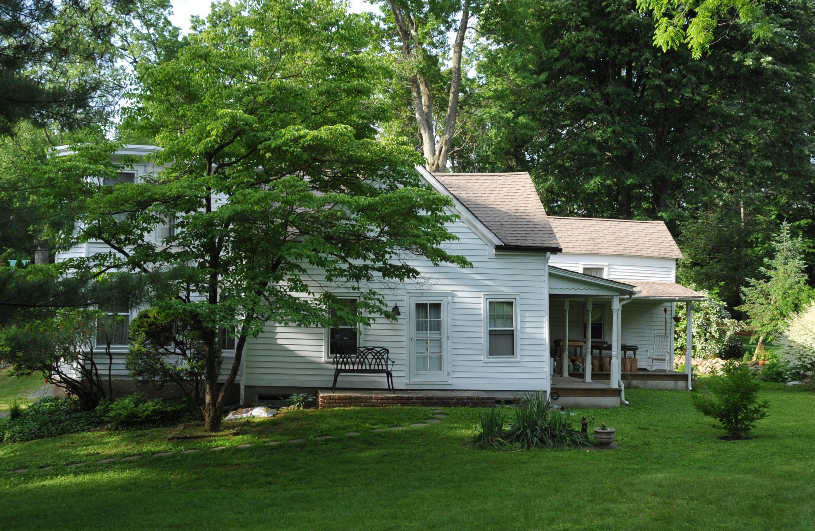 LATE 18TH CENTURY HOME BUILT BY THE GRIMES FAMILY, ACTIVE QUAKERS IN THE NEW JERSEY ANTI-SLAVERY MOVEMENT. DR. JOHN GRIMES WAS MOST VOCIFEROUS AND THIS HOME WAS A STOP ON THE UNDERGROUND RAILROAD